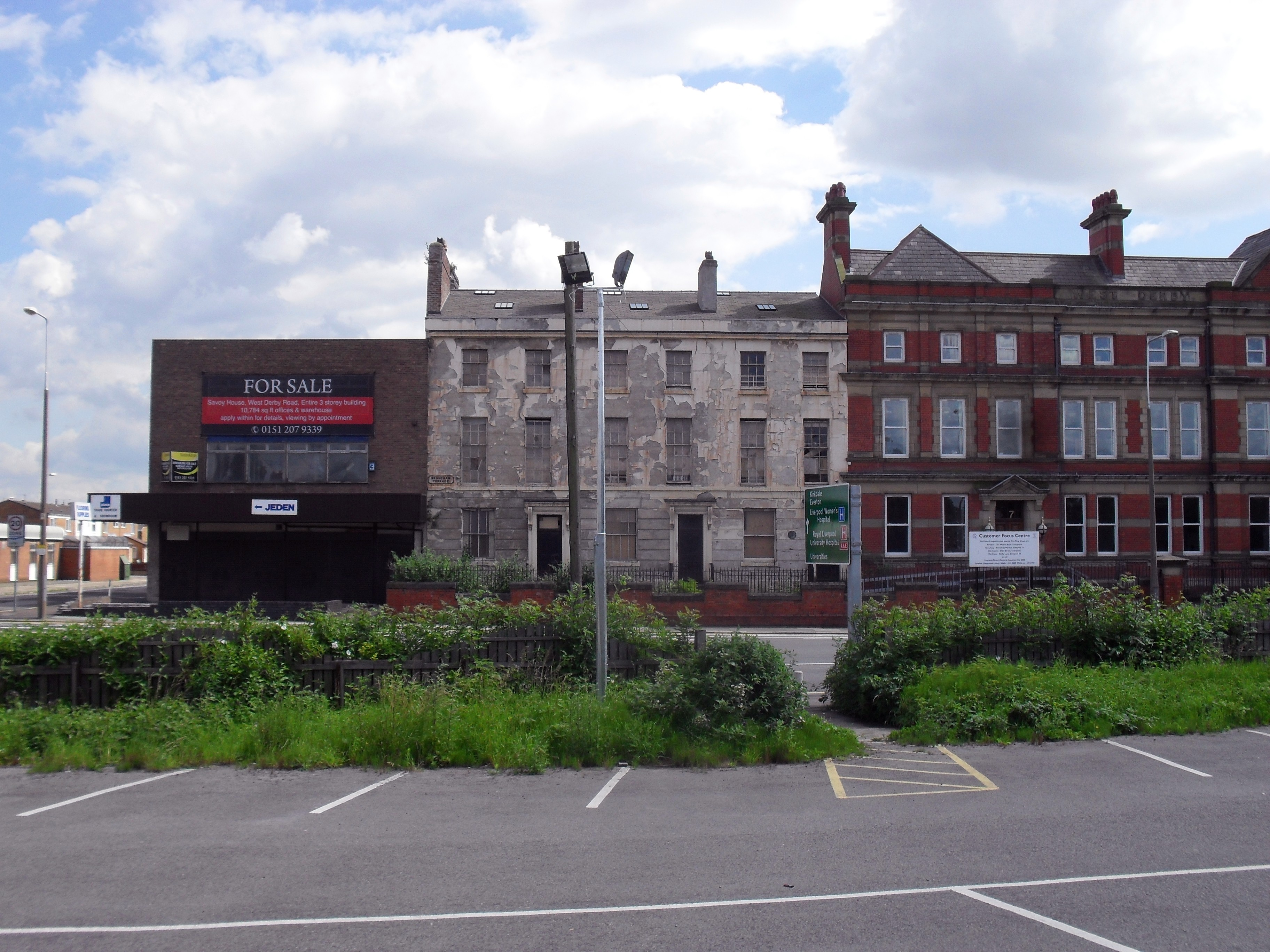 Brougham Terrace, July 07, including the building which housed the Liverpool Muslim Institute